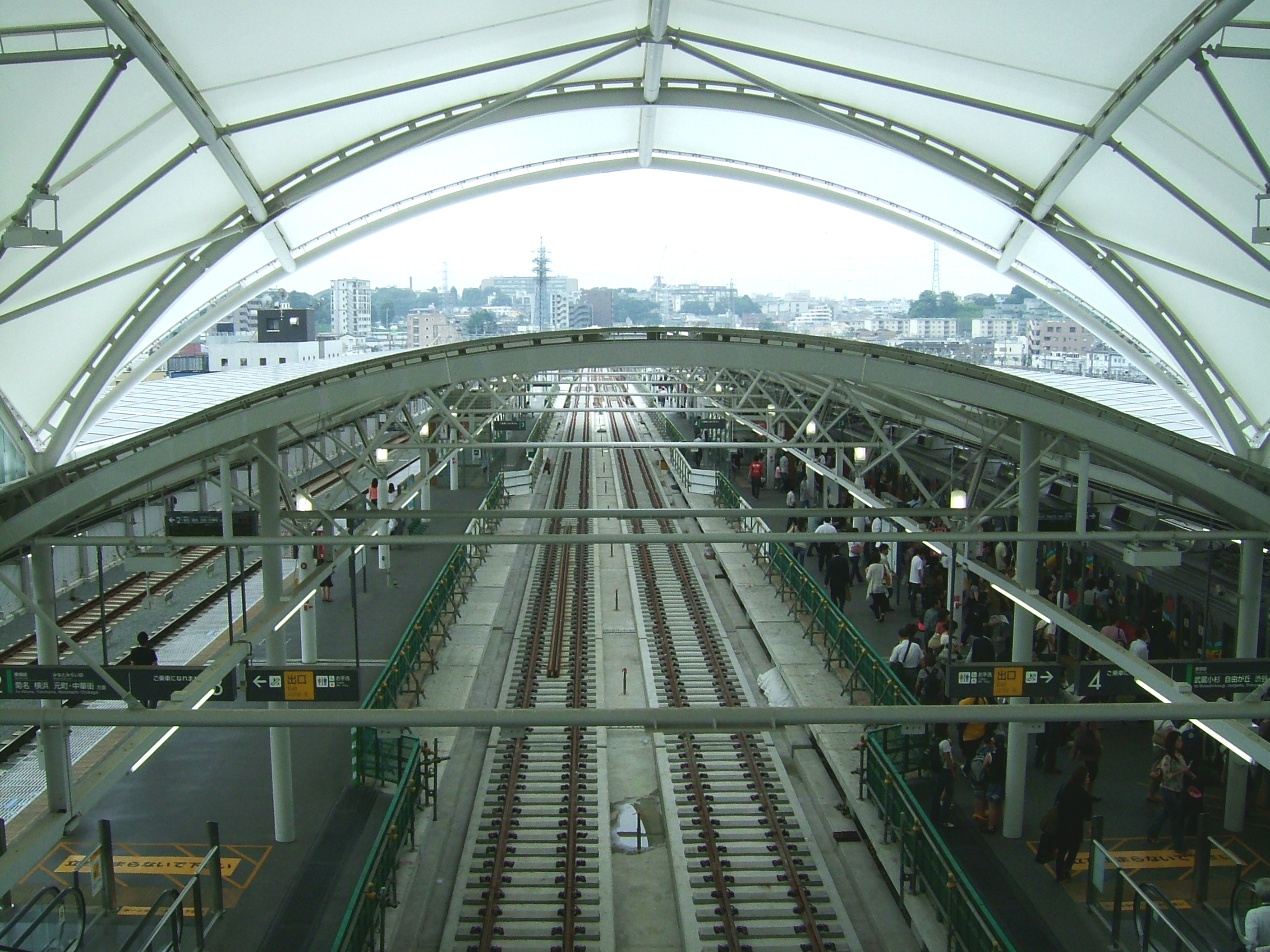 The platforms at Motosumiyoshi Station